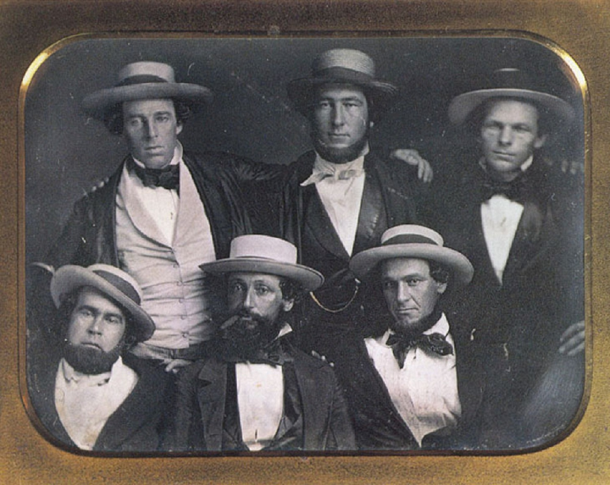 A photo purported to be The New York Knickerbockers Base Ball Club, circa 1847: Top, left to right: Alfred Cartwright, Alexander Cartwright and, William Wheaton. Bottom, left to right: Duncan Curry, Daniel "Doc" Adams, Henry Tiebout Anthony.